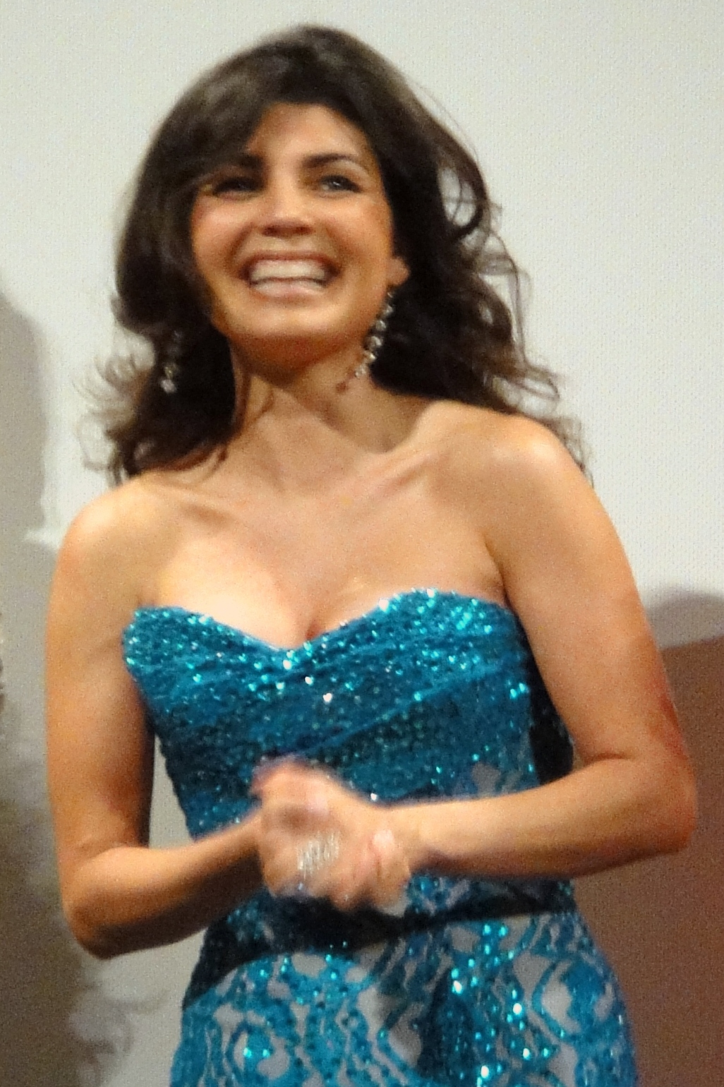 Ara Celi at the Machete premiere in The Paramount Theater in Austin, Texas